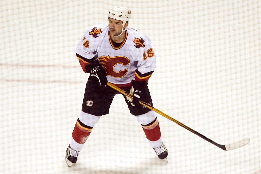 Calgary Flames vs. San Jose Sharks